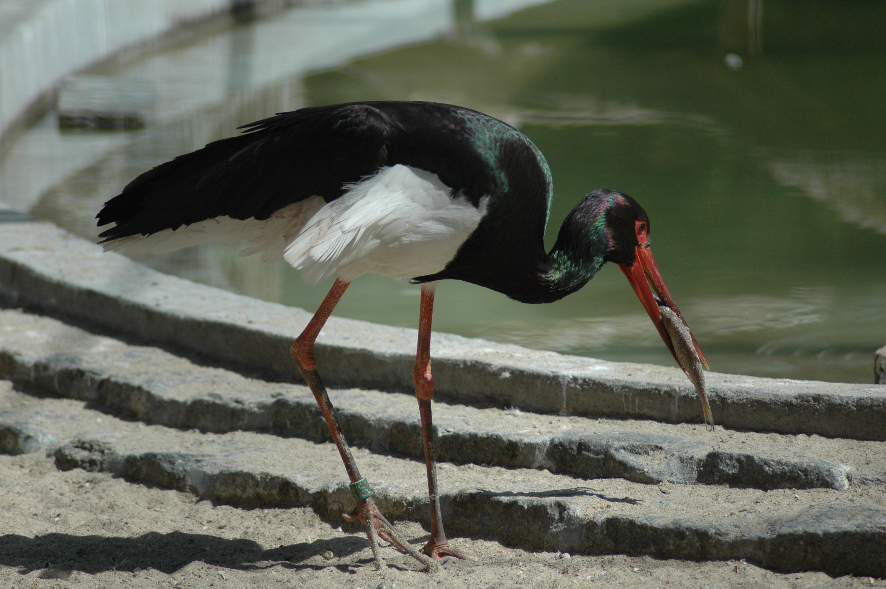 Black Stork (Ciconia nigra), at Poland, Wroclaw ZOO.